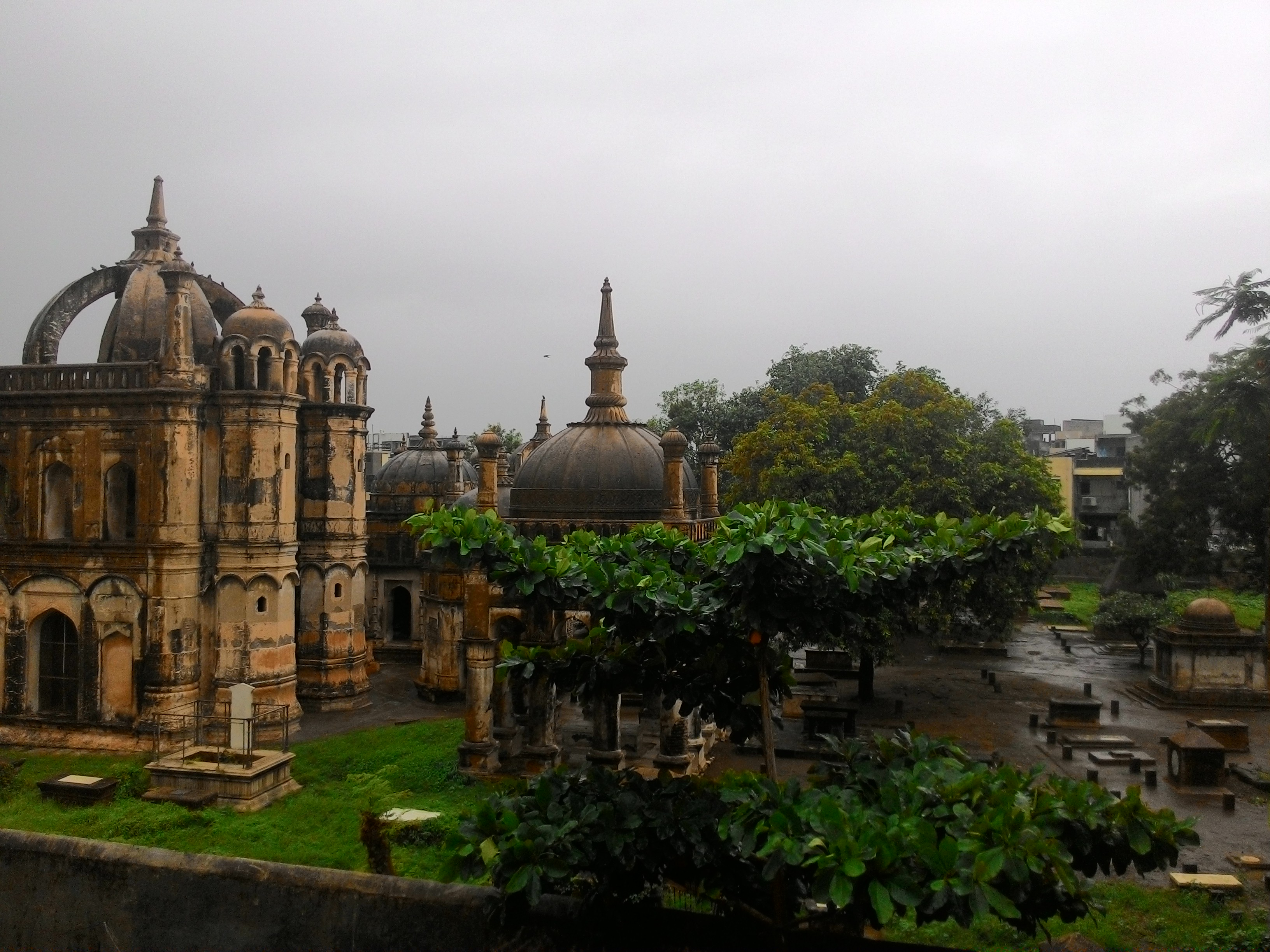 Dutch Cemetery at Surat, Gujarat, India